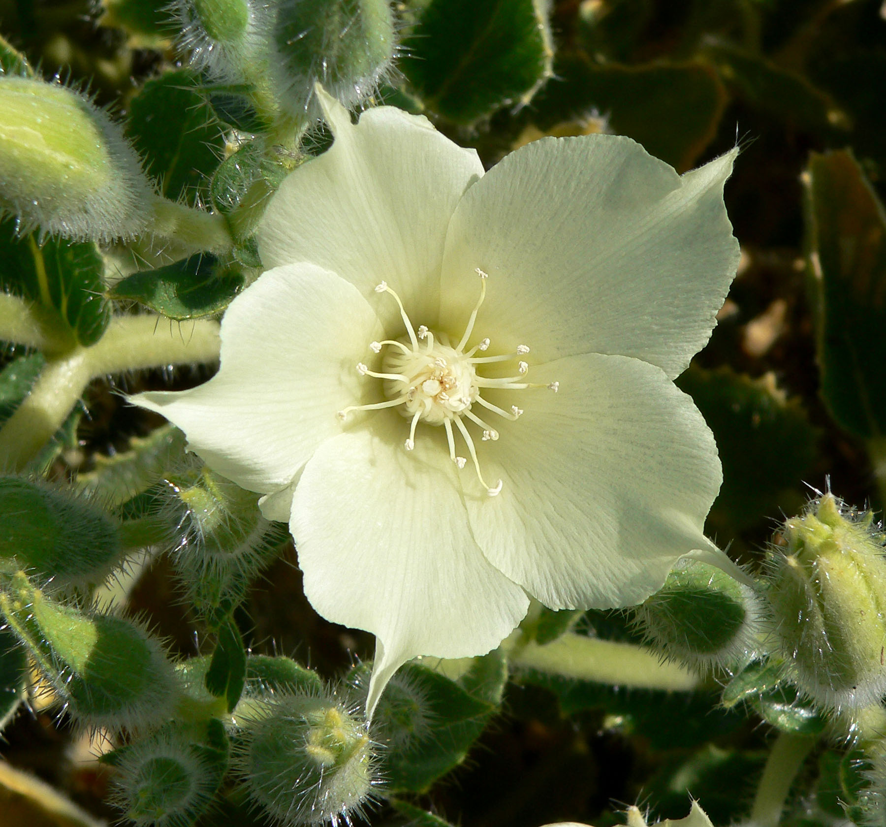 Eucnide urens in Furnace Creek Wash, Death Valley, California